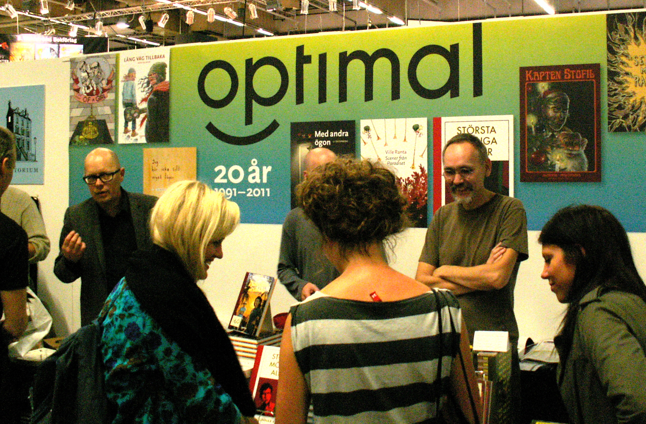 The Optimal Press stand, at the 2011 Göteborg Book Fair (2011-09-24). Inside the stand are Gunnar Krantz to the left, Nicolas Križan to the right.